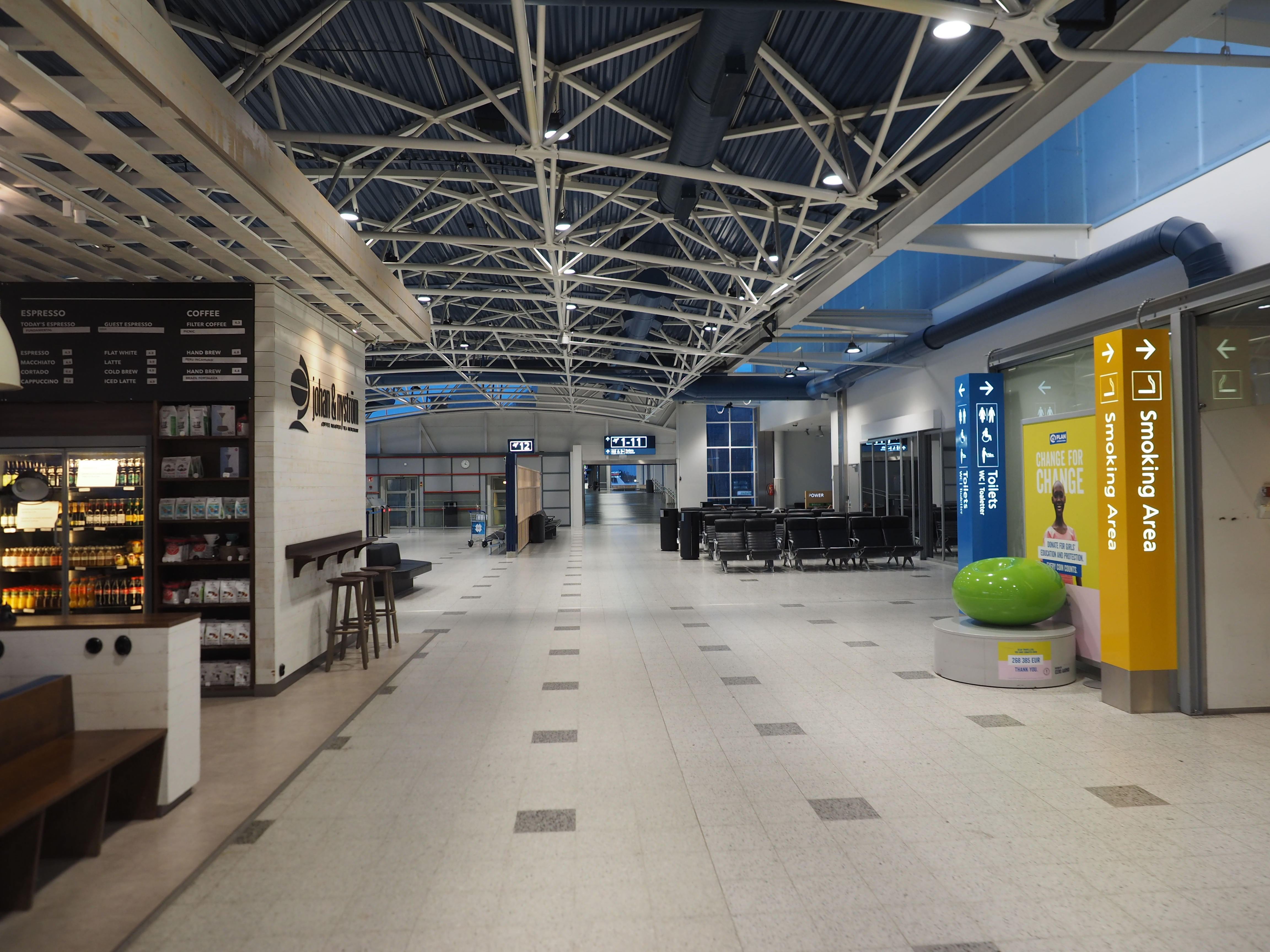 Interior of the Helsinki Airport in northern Vantaa, Finland, at about 04:05 AM (local time). This is the international zone, accessible only after border control and security check, and with a valid ticket.